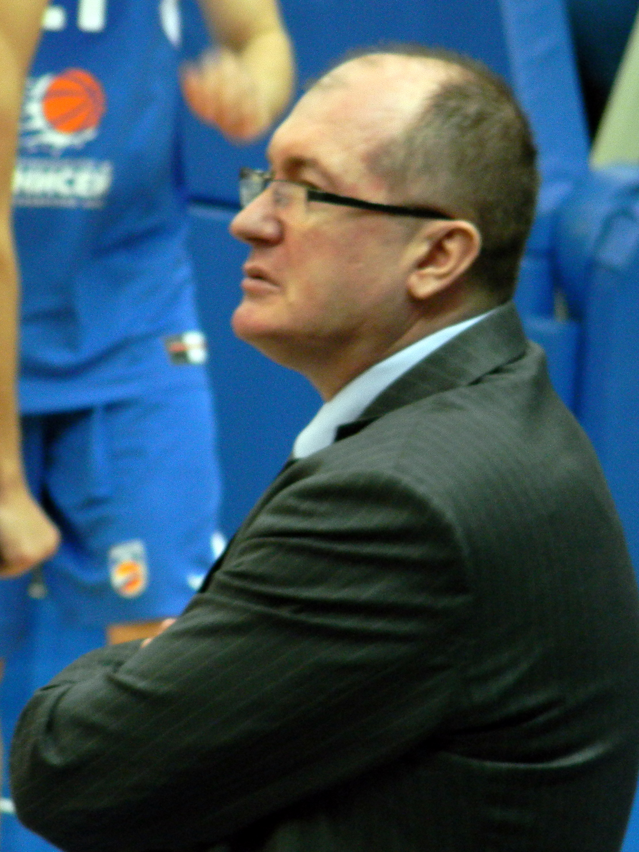 Stevan Karadžić, head coach of the BC Enisey Krasnoyarsk in the game against BC Nizhny Novgorod on March 26th, 2011